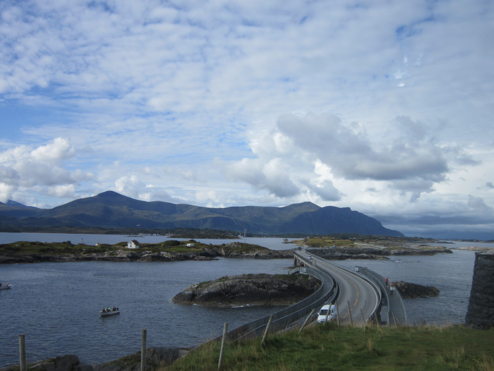 Atlanterhavsveien in Norway, along the National Cycling route 1 (Coastal Route)